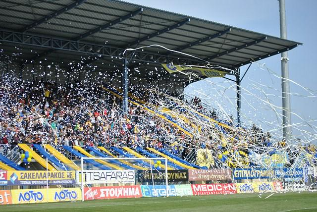 Asteras-tripolois fans